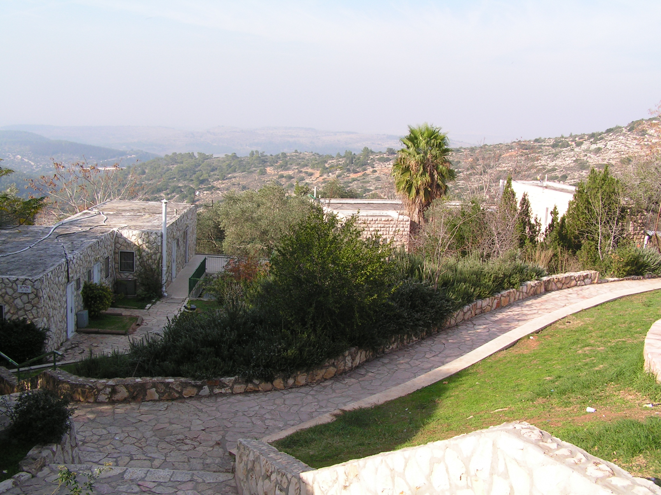 view of ramot shapira